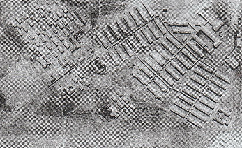 Aerial view of Baragwanath Hospital, Johannesburg in 1942.